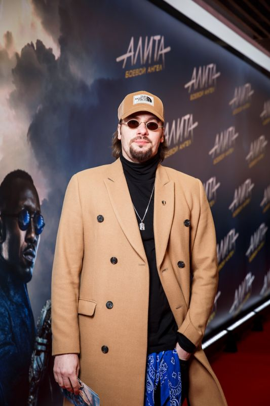 Andrey Batt at the "Alita. Battle Angel" Russian premiere in Moscow